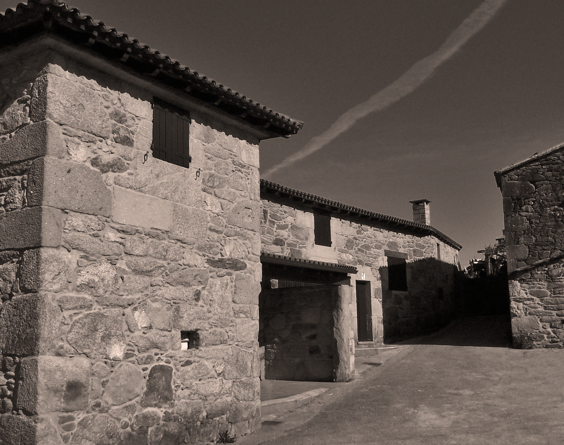 Aldea